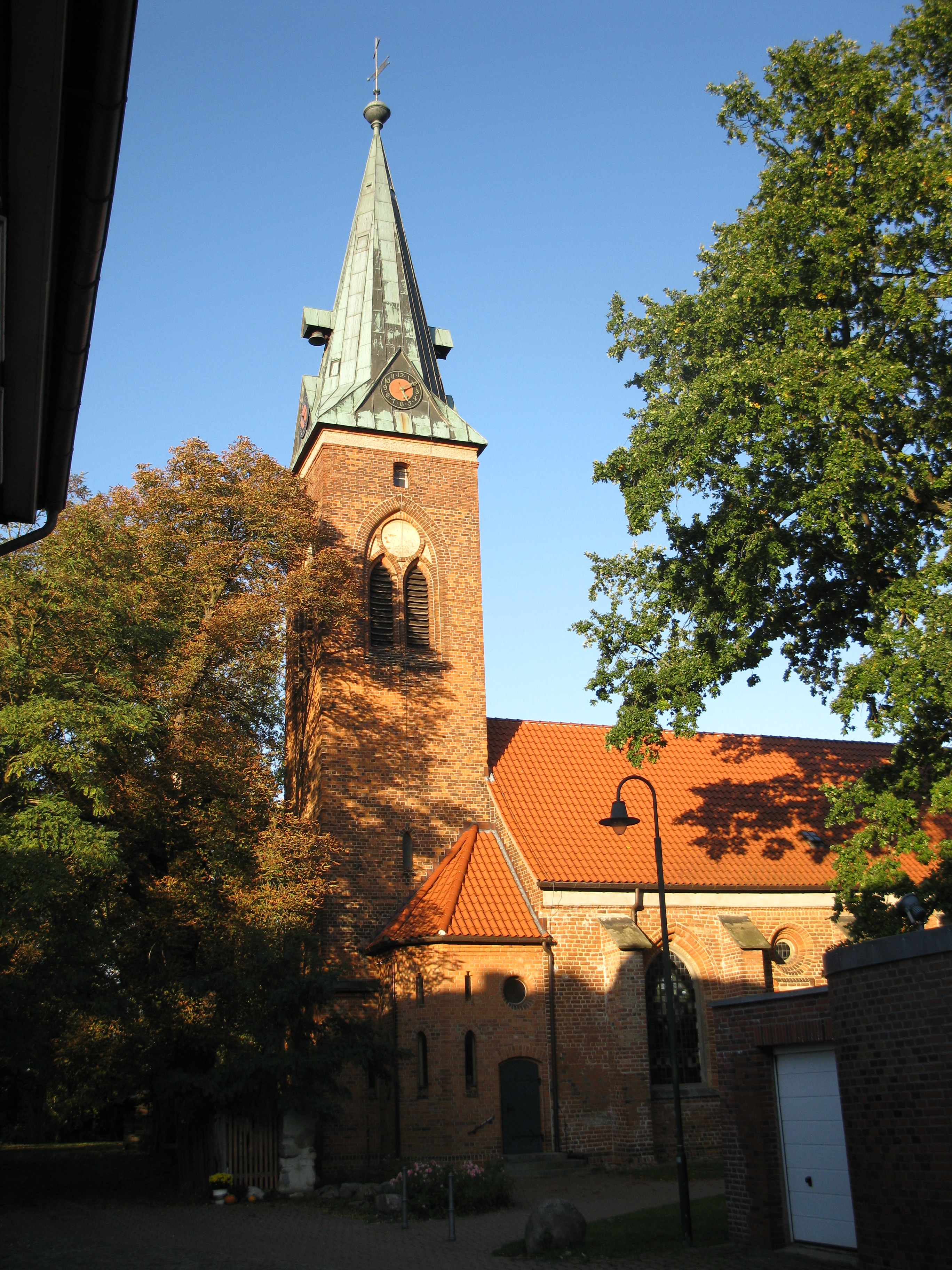 Protestant church, Wustrow (Wendland), Germany